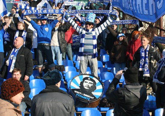 Fans of FC Dinamo-Barnaul